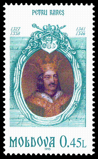 Petru Rareş (1527-1538, 1541-1546). A follower of the Slavonic church and culture, he applied the policy of strengthening the central power, an anti-Turkish policy with the support of minor boyars and of the merchants. The most beautiful building erected during his reign is the monastery Probota, where he is buried.